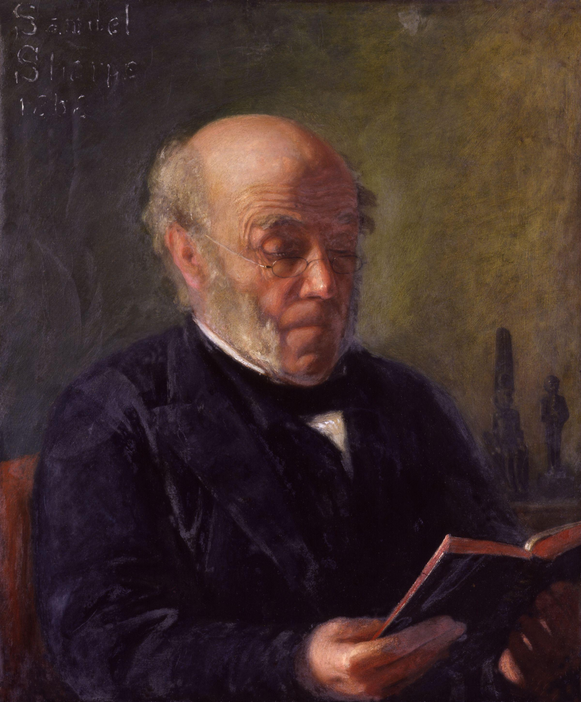 All images in this batch have been confirmed as author died before 1939 according to the official death date listed by the NPG, given to the National Portrait Gallery, London in 1907.